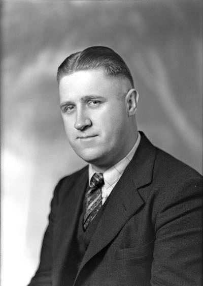 Representative H. N. (Barney) Jackson, 1937